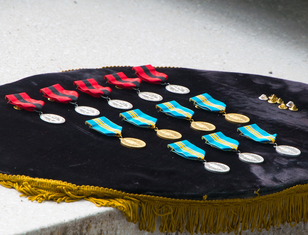 Veterans Day in Stockholm, May 29, 2015.